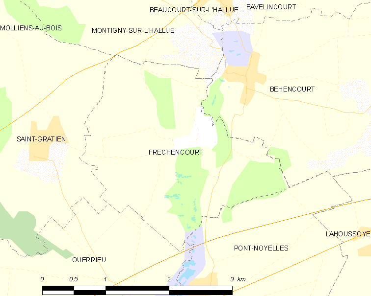 Map of French municipality Fréchencourt